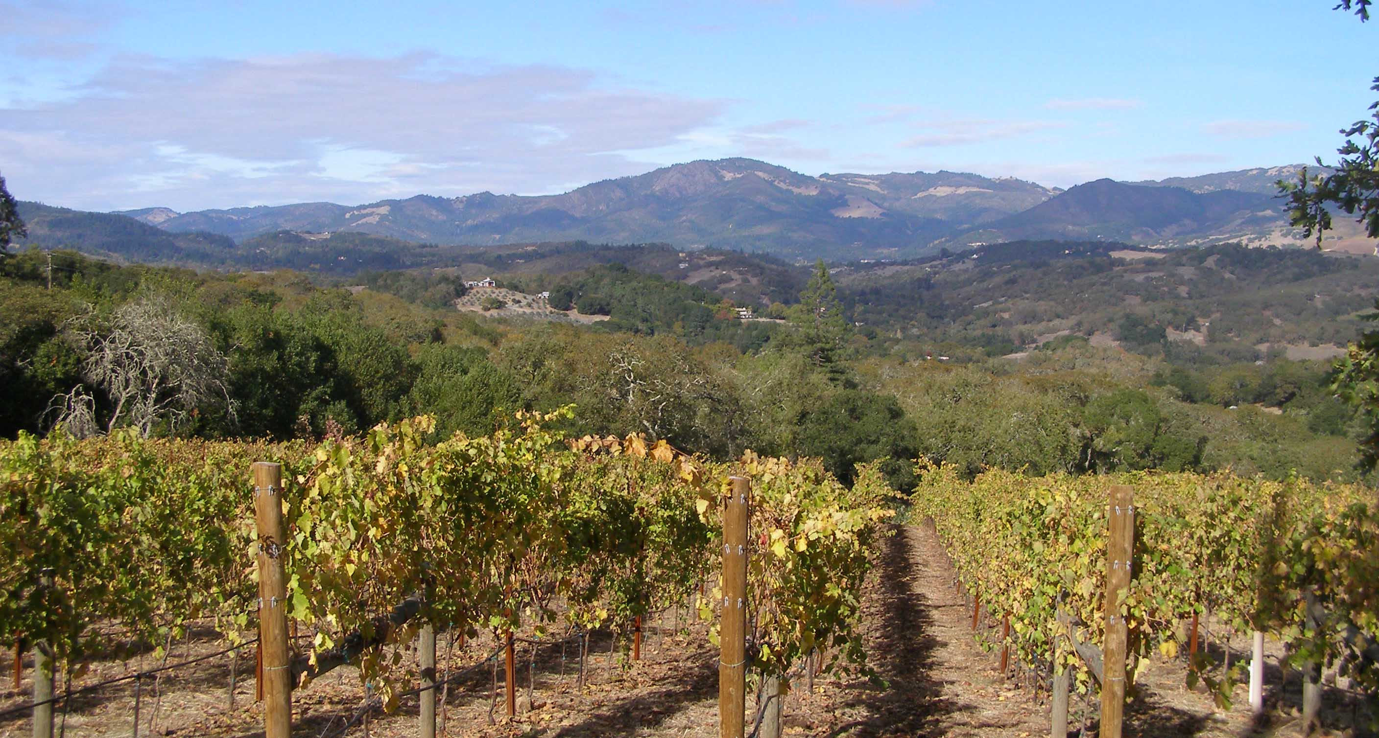 A Sonoma Mountain AVA vineyard, with the Mayacamas Mountains of the Northern Inner California Coast Ranges System in background. Located in Sonoma County, California.